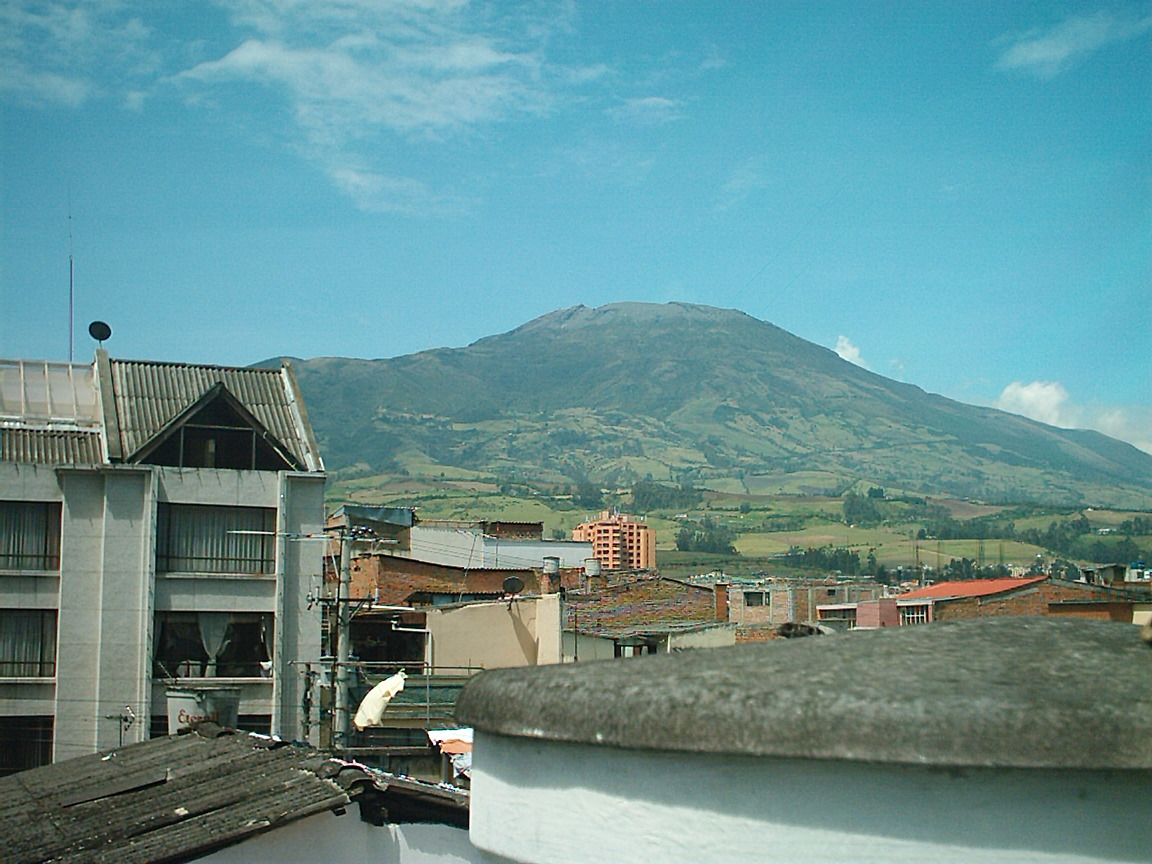 Taken on a good clear day we were on alert 2.